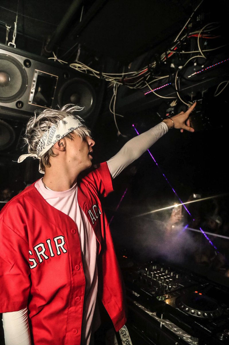 Arty in Chicago (2018)